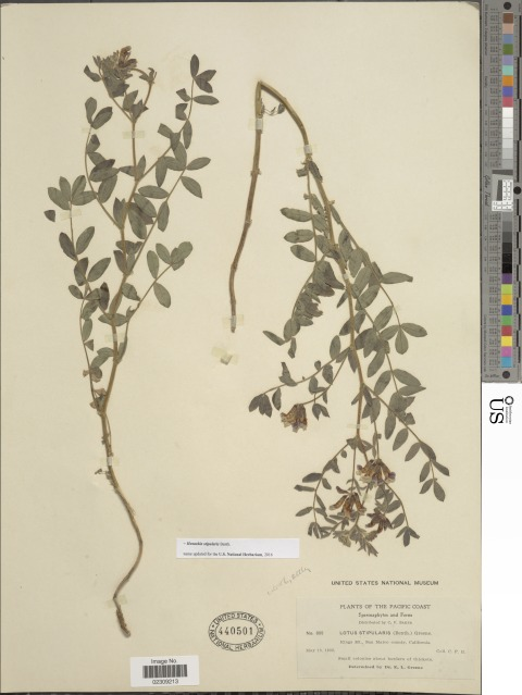 An image of a Hosackia stipularis